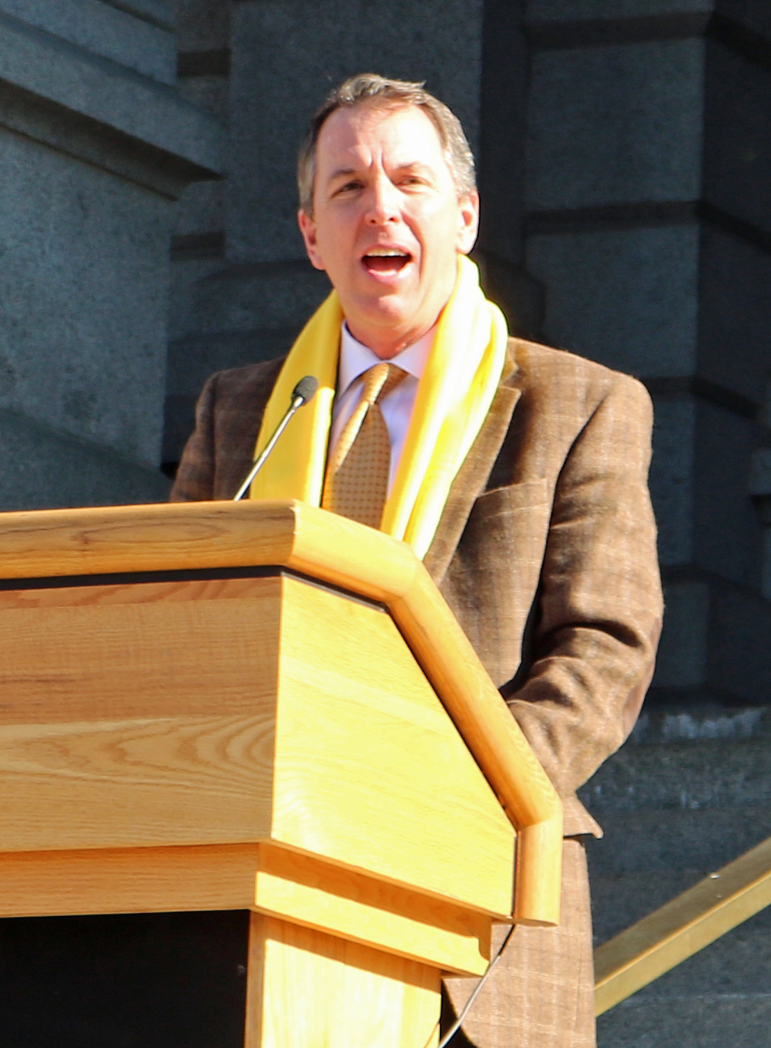 Paul Lundeen, a politician from Colorado.